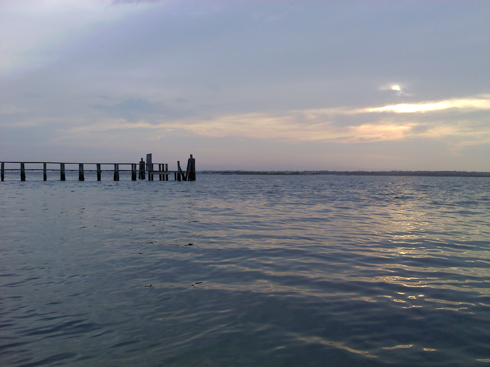 A photo of Topsail Island